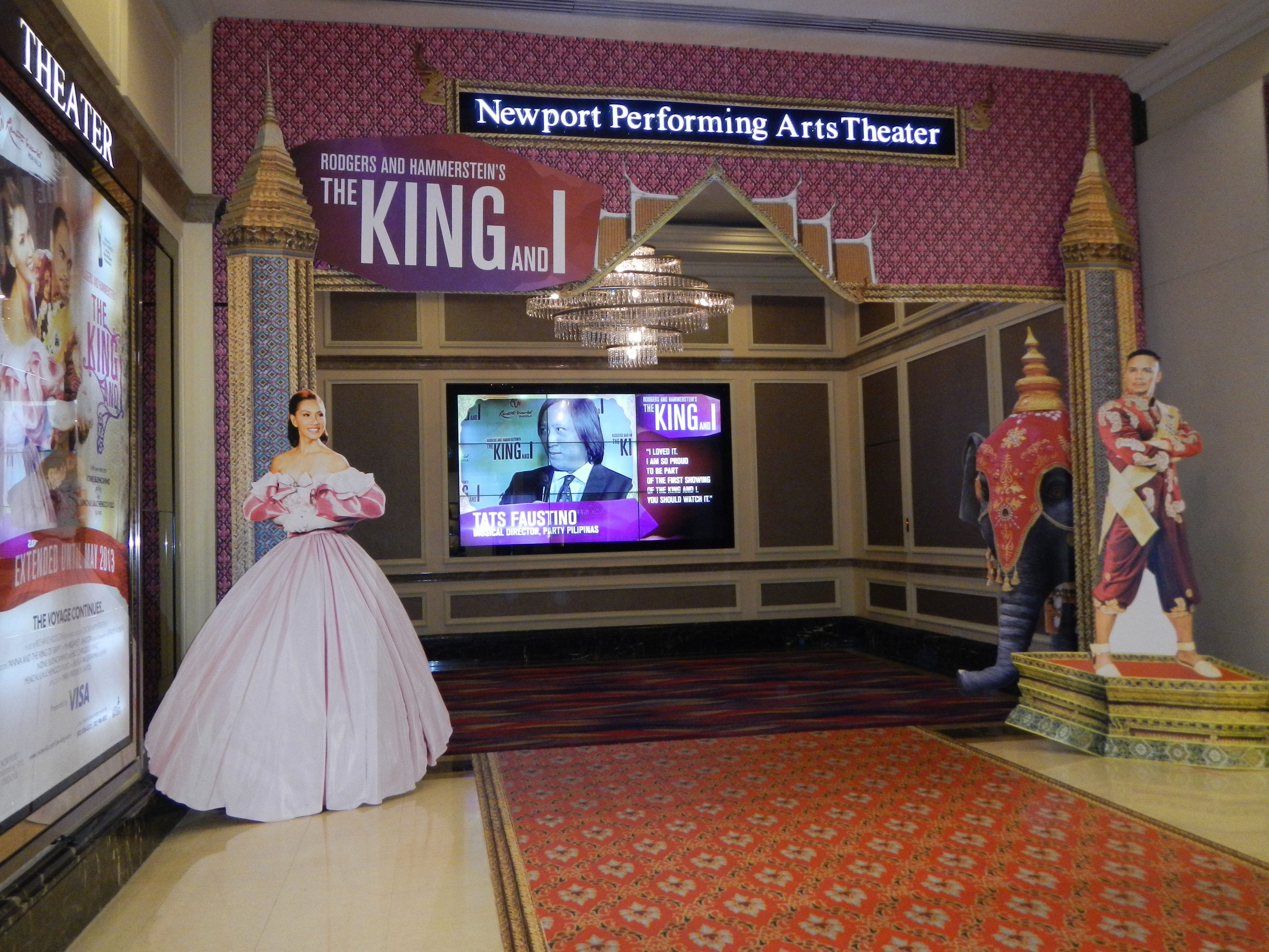 Resorts World Manila[1] is a casino resort, located in Newport City, opposite the Ninoy Aquino International Airport (NAIA) Terminal 3, in Pasay[2], Metro Manila, Philippines. The resort is a joint venture between Alliance Global Group and Genting Hong Kong. The project, occupying part of a former military camp near Manila’s airport, has three hotels with 1,574 rooms, a 30,000 square meter (323,000 square feet) casino and a 30,000 square meter shopping mall.[1] Although the soft launch of the resort took place on 28 August 2009, the grand opening was scheduled on July 2010.[2] Resorts World Manila is the sister resort to Resorts World Genting, Malaysia and Resorts World Sentosa, Singapore.It is the only casino resort in the country until the opening of Solaire Resort & Casino in Entertainment City, Paranaque City on March 16, 2013.[3]Coordinates: 14°31'11"N 121°1'9"E [4] is a 7.8 hectare Entertainment Complex consisting of Marriott Hotel, Maxims Hotel, Remington Hotel, an upscale mall, premium cinemas, theater, and the country's largest casino.[5][6][7]Resorts World Manila to bring beloved fairy tale to life[8]